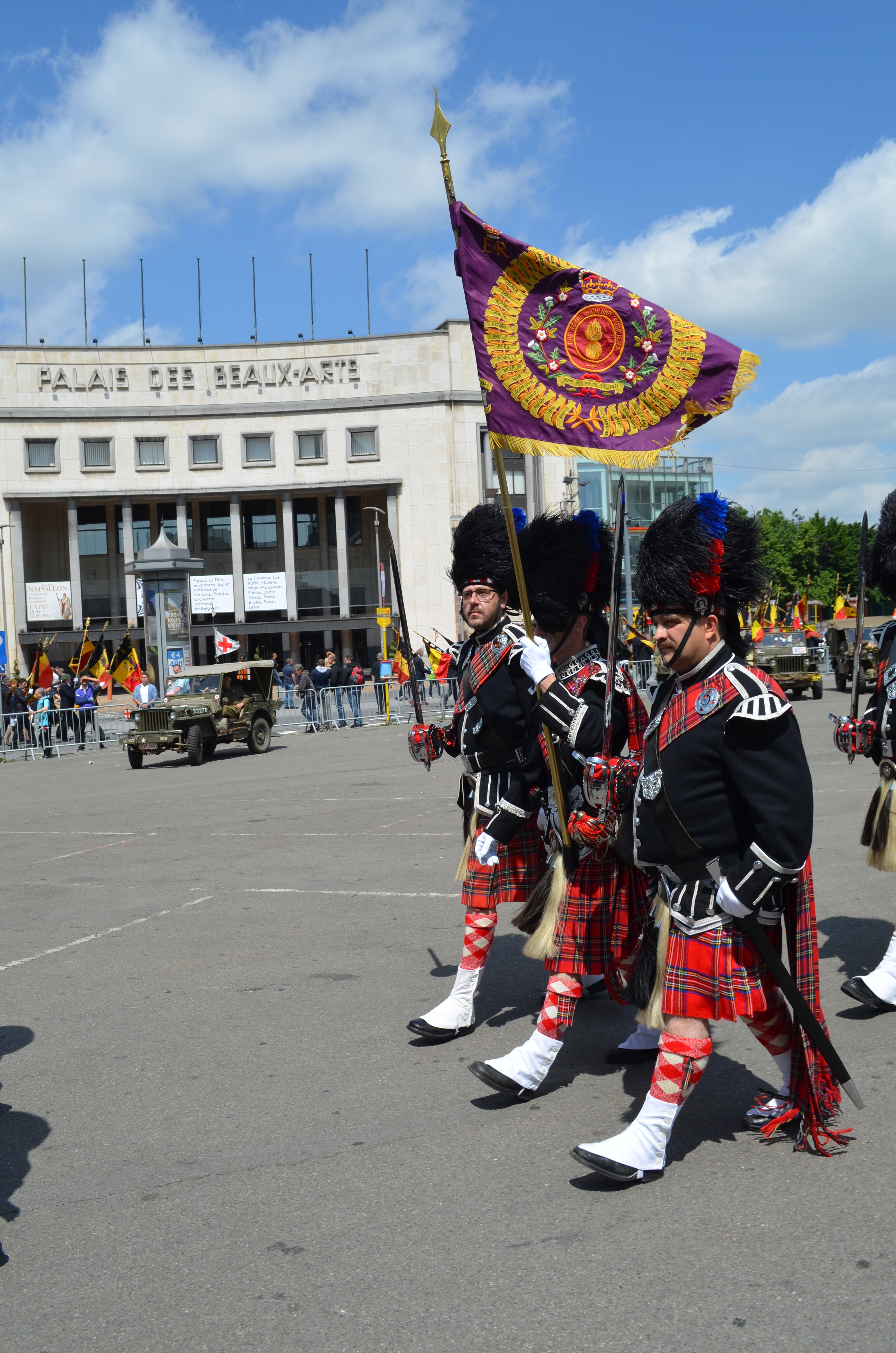 National Standard-bearers day in Charleroi (2015). Royal Highland Fusiliers.